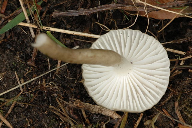 Hygrophorus olivaceoalbus from Commanster, Belgium. The determination of the species shown in this picture has been verified.